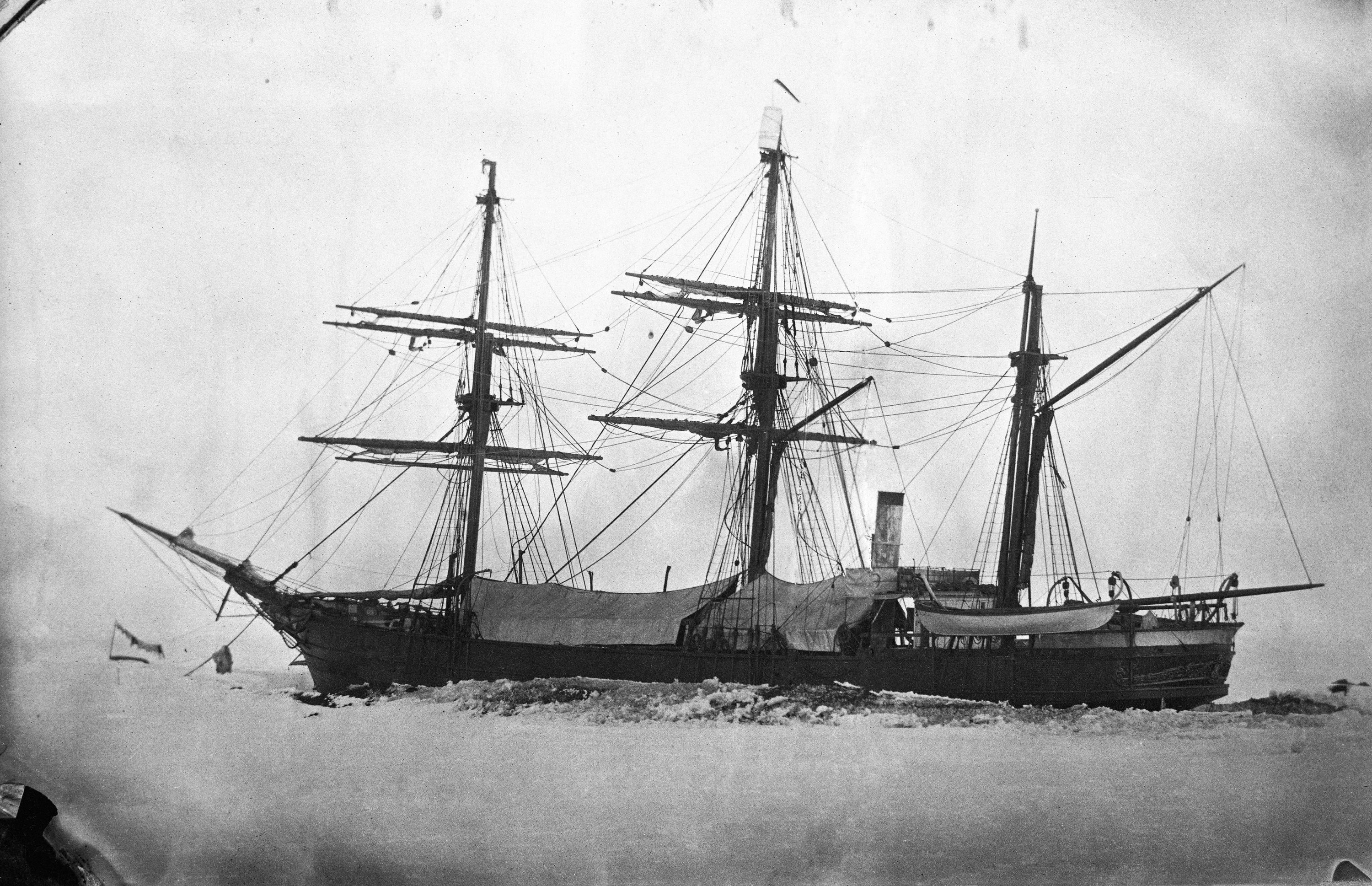 The ship Vega. Photo taken during the Vega expedition while frozen into packed ice at Pitlekai, Siberia.